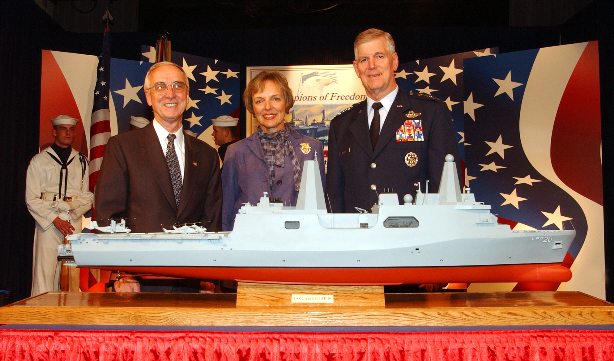 Washington D.C. (Sept. 9, 2004) – The Secretary of the Navy Gordon England, and the Chairman, Joint Chiefs of Staff Gen. Richard Myers, joined by his wife Mary Jo Myers, pose next to a model of a San Antonio-class amphibious dock landing ship (LPD), following the official naming ceremony for USS Arlington (LPD 24), and USS Somerset (LPD 25). Arlington and Somerset join the previously named amphibious dock landing ship USS New York (LPD 21), in honoring the heroes and citizens, who provided aid and support during and after the Sept. 11, 2001 attacks on America. Mrs. Myers will also act as the ships sponsor for USS Somerset. U.S. Navy photo by Chief Journalist Craig Strawser (RELEASED).